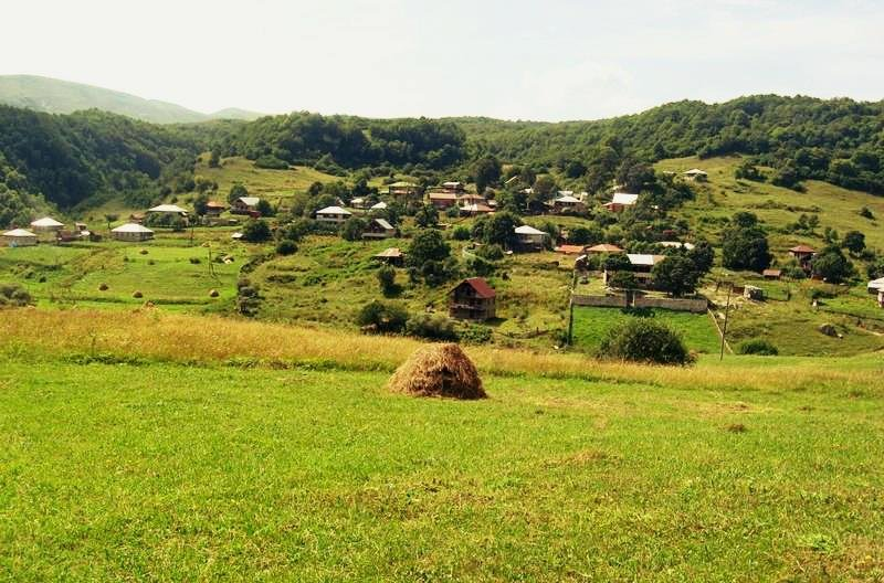 Village Shkmeri, Oni Municipality, Georgia